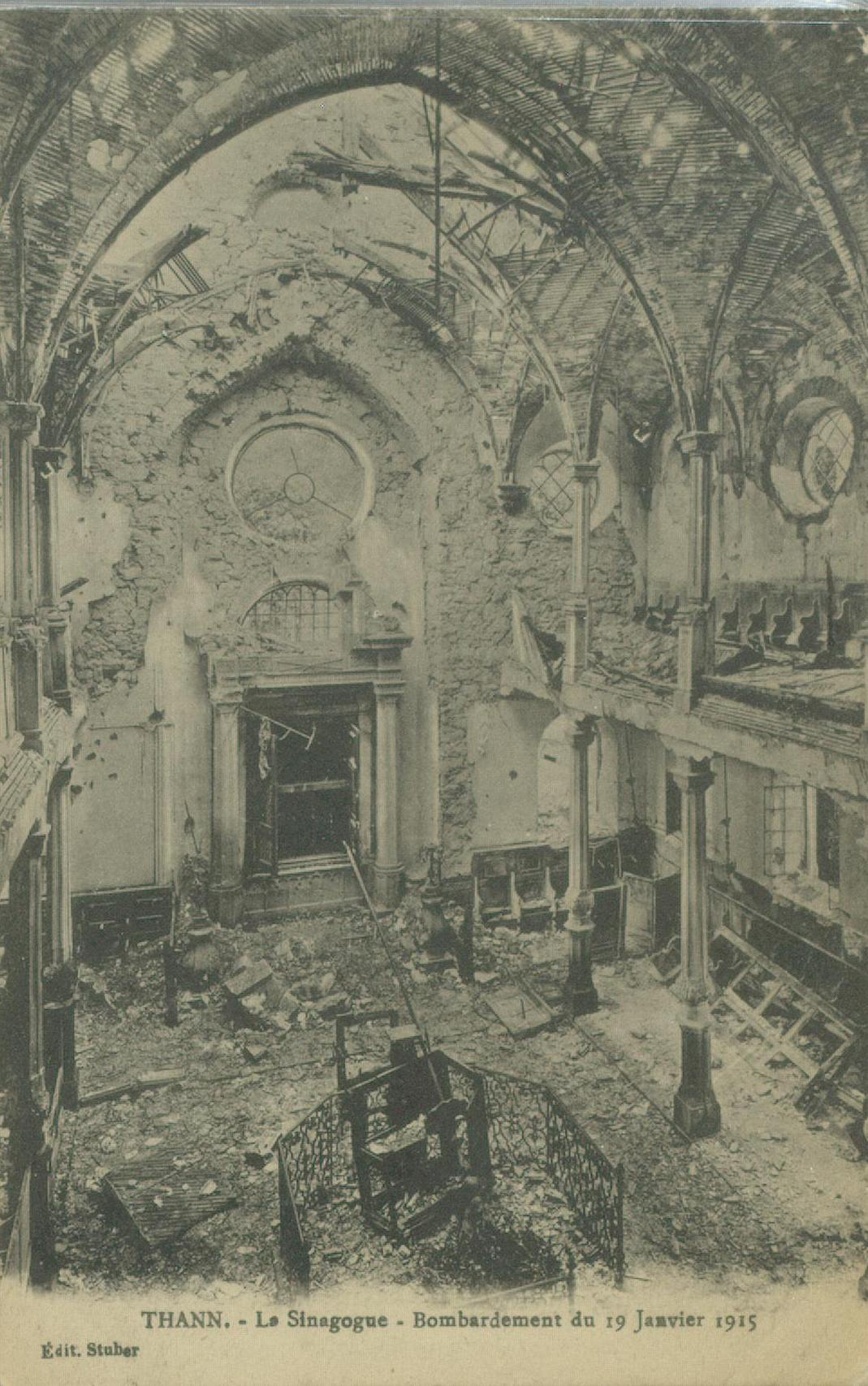 Title: Thann. - La Sinagogue - Bombardement du 19 Janvier 1915 Publisher: Edit. Stuber Rights info: No known restrictions on access Repository: Thomas Fisher Rare Book Library, University of Toronto, Toronto, Ontario Canada, M5S 1A5